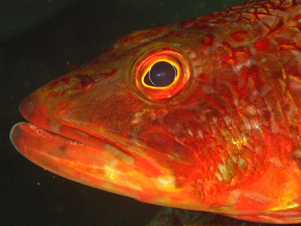 Portrait of a Sergeant Baker (Aulopus purpurissatus). Fairy Bower, Manly, NSW